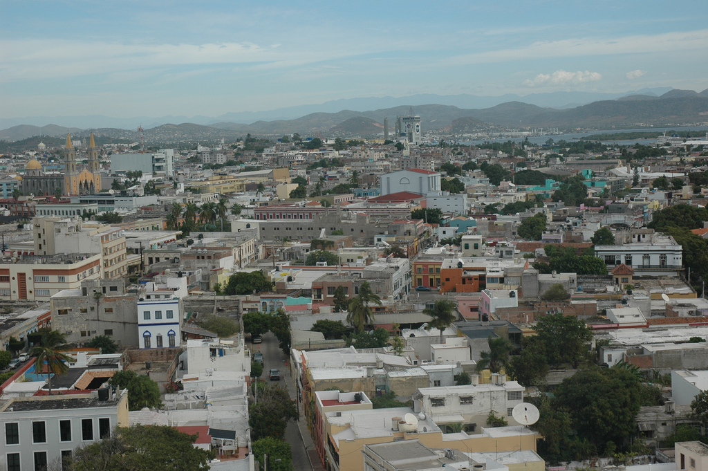 Mazatlán